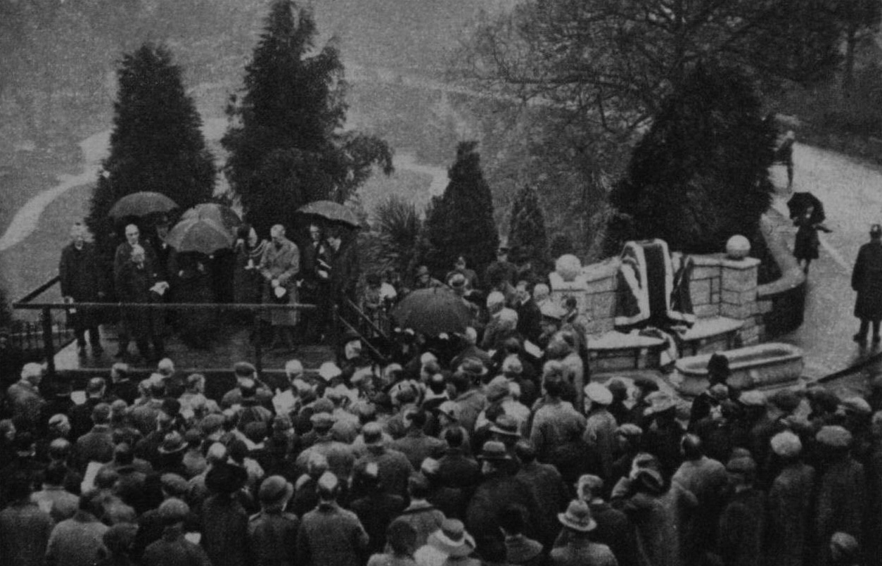 Unveiling in November 1922 of the memorial seat at St Austell, Cornwall, commemorating Thomas Agar-Robartes, MP, who had been killed serving in the First World War. This photograph shows Sir Clifford Cory speaking before the unveiling.